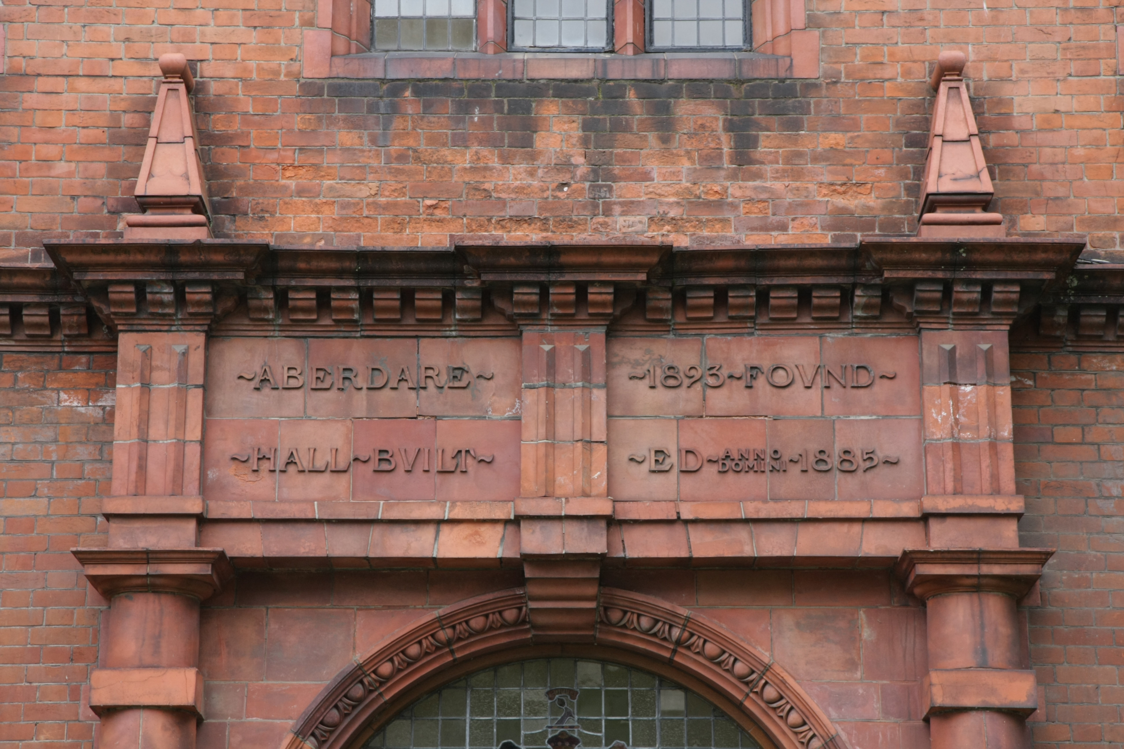 Commemorative terracotta plaque above main entrance of Aberdare Hall, Cardiff University, giving dates of building and foundation